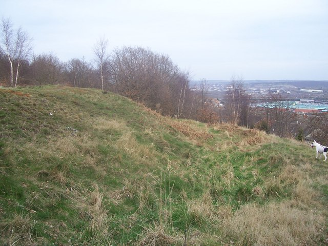 Wincobank Hill Fort Wincobank hill fort showing the bank and ditch.